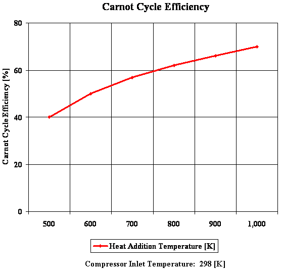 Gordan Feric, Engineering Software